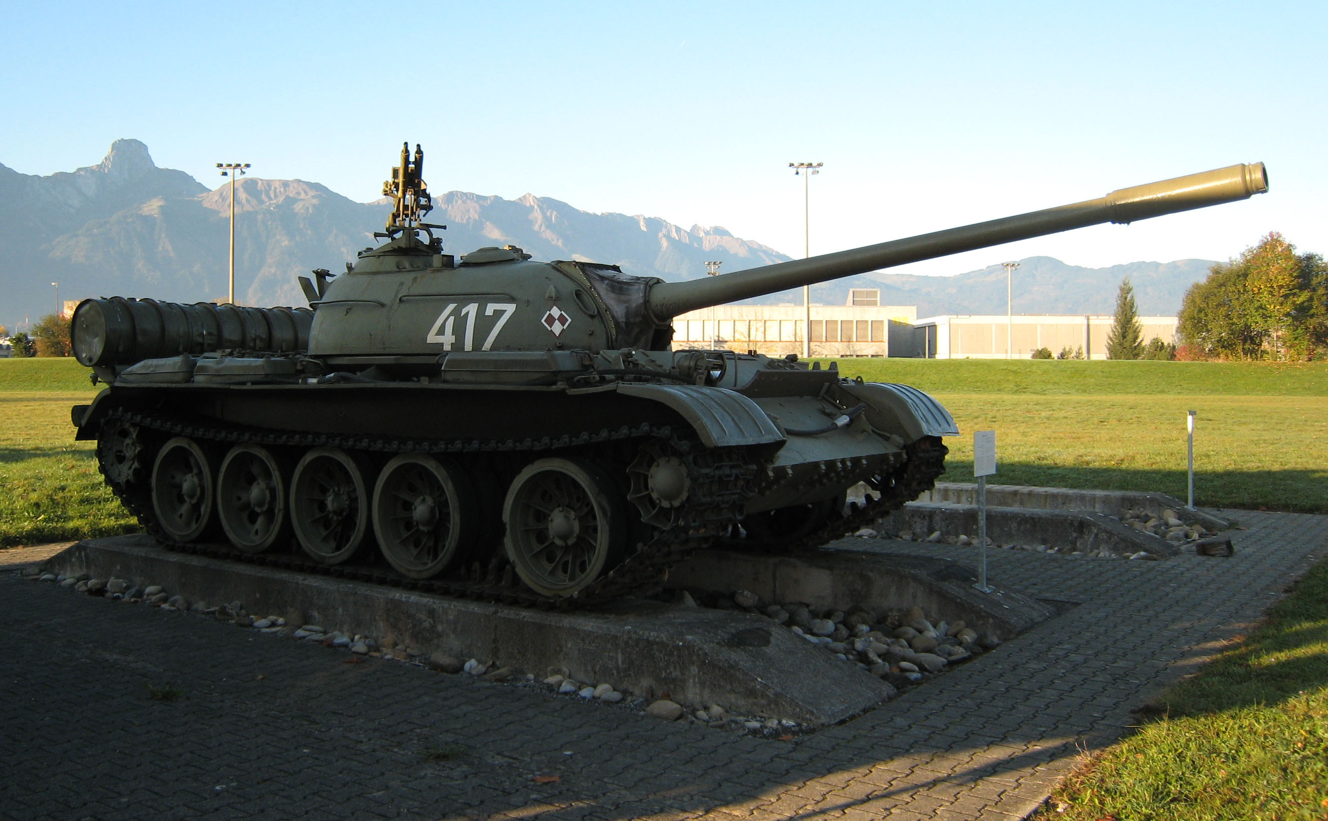 Ex-Polish T-54A main battle tank at tank museum in Thun, Switzerland.